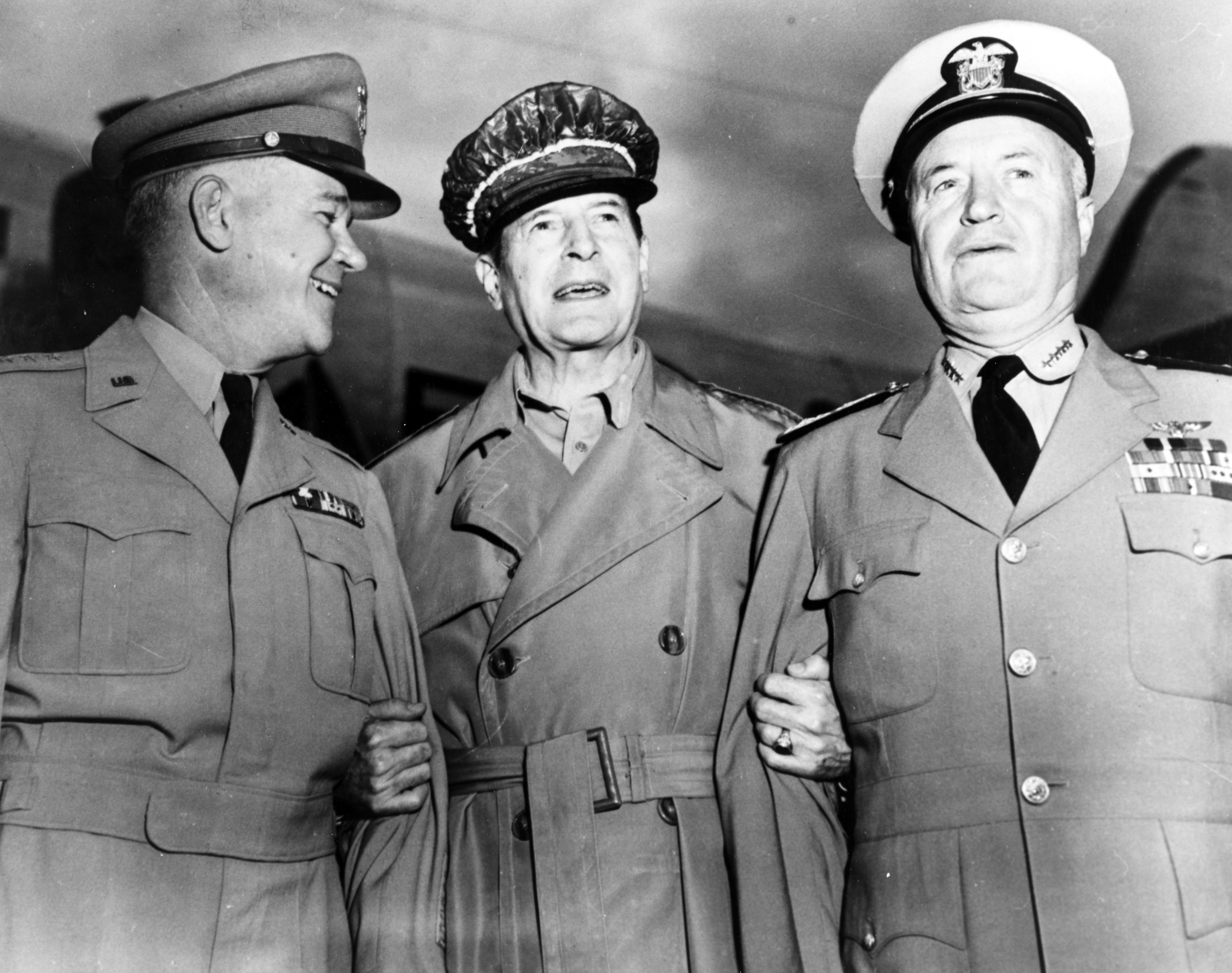 General of the Army Douglas MacArthur, Commander in Chief, Far East, (center) Greets Army Chief of Staff General J. Lawton Collins (left) and Chief of Naval Operations Admiral Forrest P. Sherman, as members of the Joint Chiefs of Staff arrive at an Tokyo, Japan, airfield, for conferences concerning future operations in Korea, 21 August 1950. Photo #: 80-G-422492